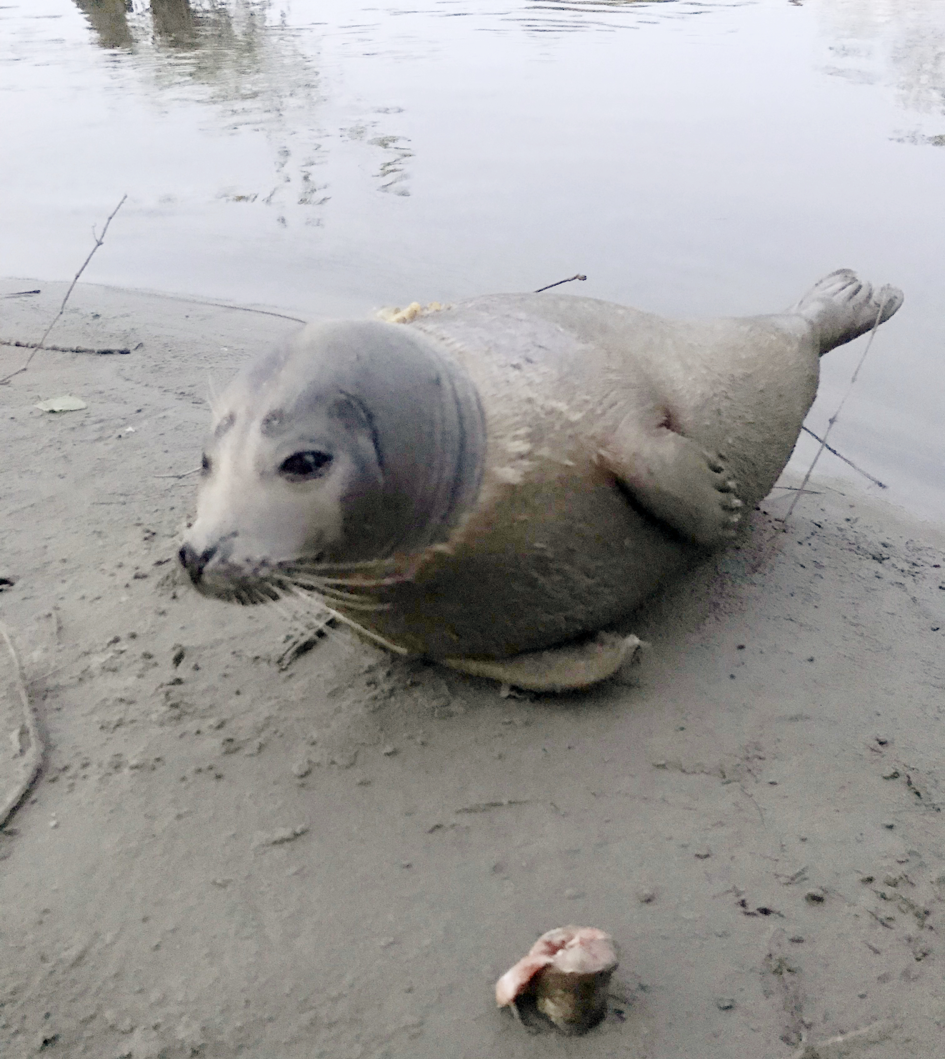 Laysan, a tagged harbor seal on Connecticut River bank, Holyoke, MA. May '19. Migrated upriver in pursuit of shad.